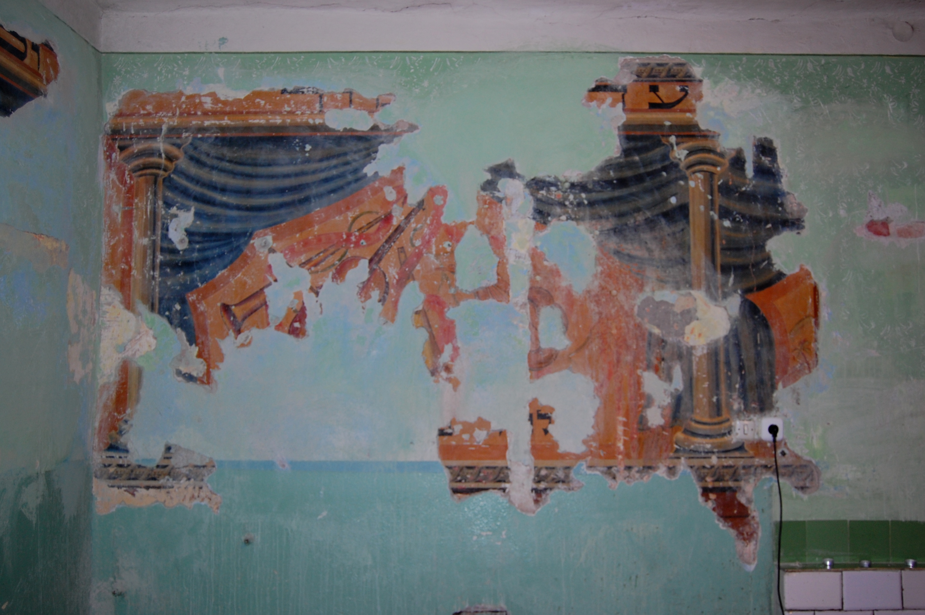 Cukerman Synagogue in Będzin